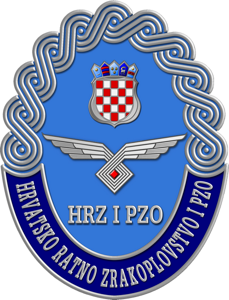 Seal of Croatian Air Force